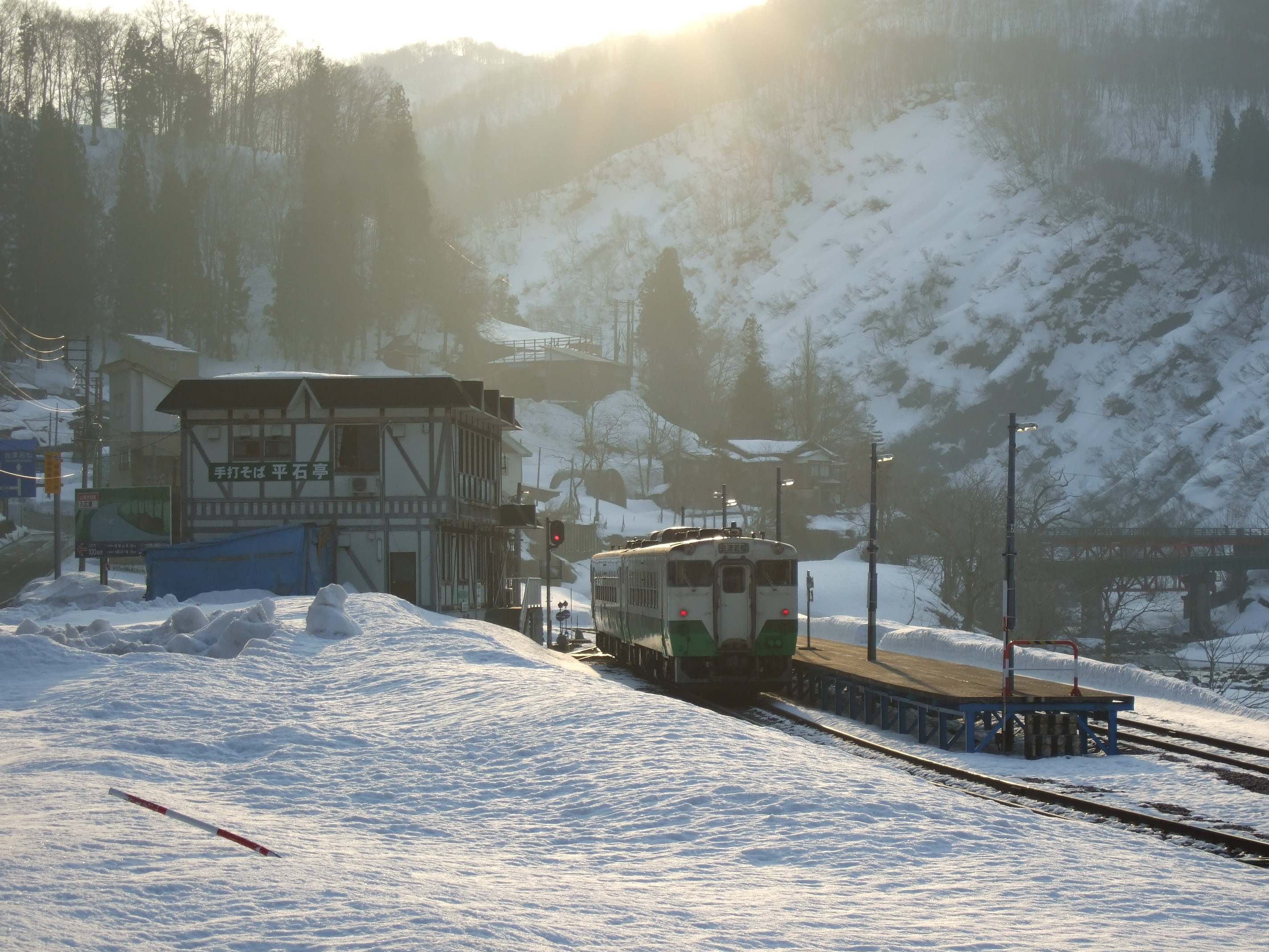 Oshirakawa Station on the Tadami Line, in Niigata Prefecture, Japan